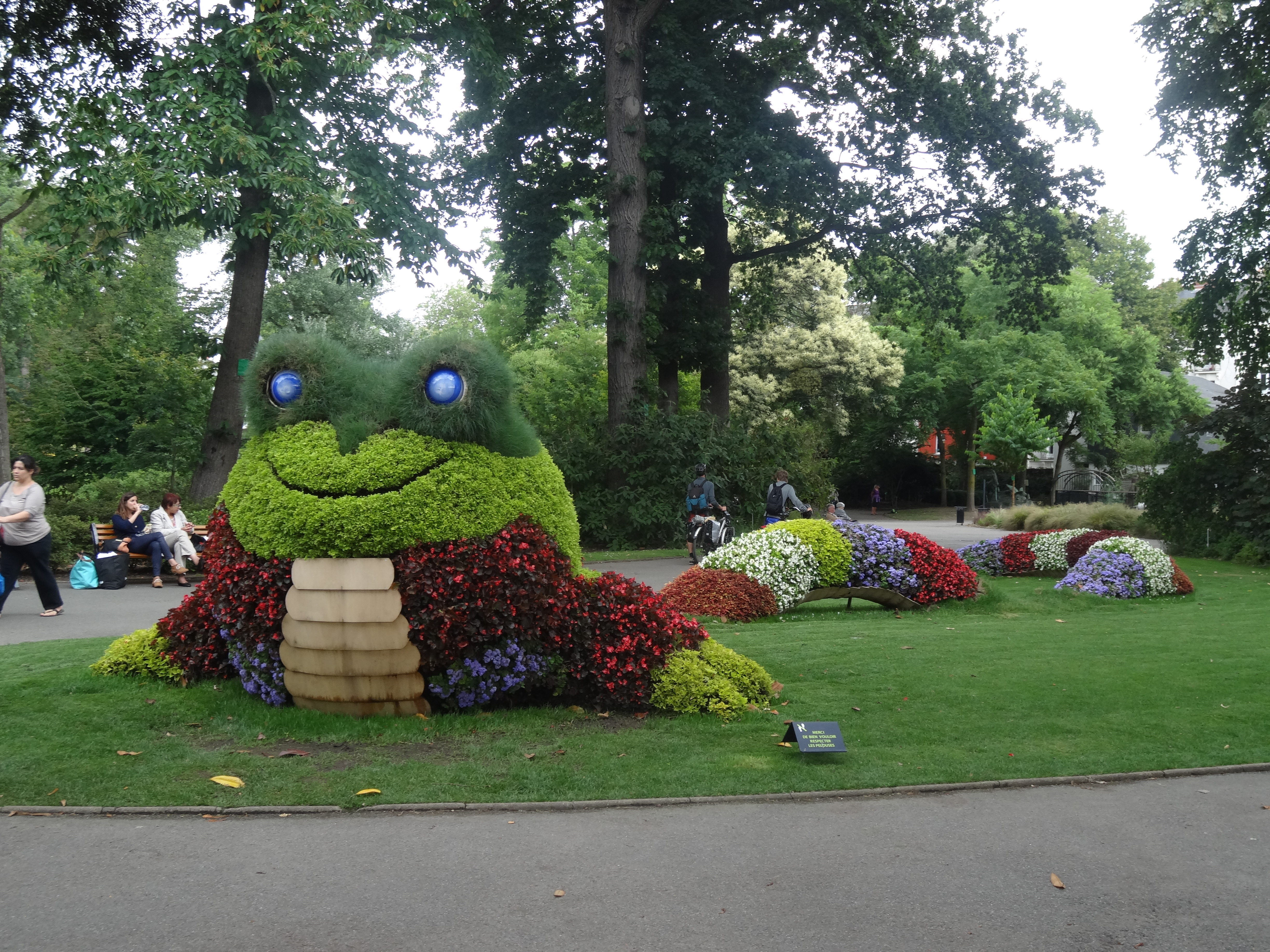 Jardin des Plantes (Nantes). Serpicouliflor designed by Claude Ponti.